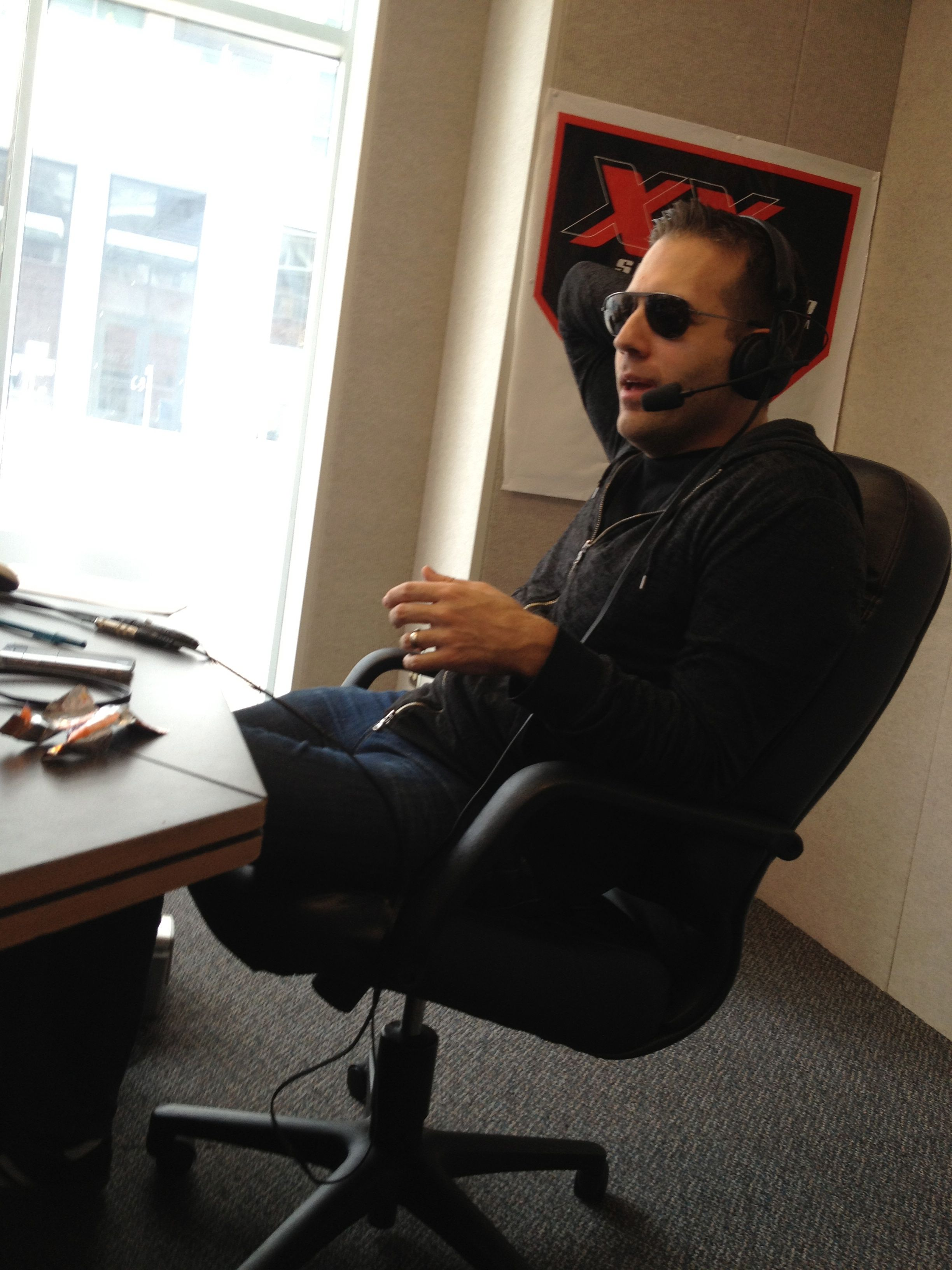 I took this work entirely by myself on a special broadcast